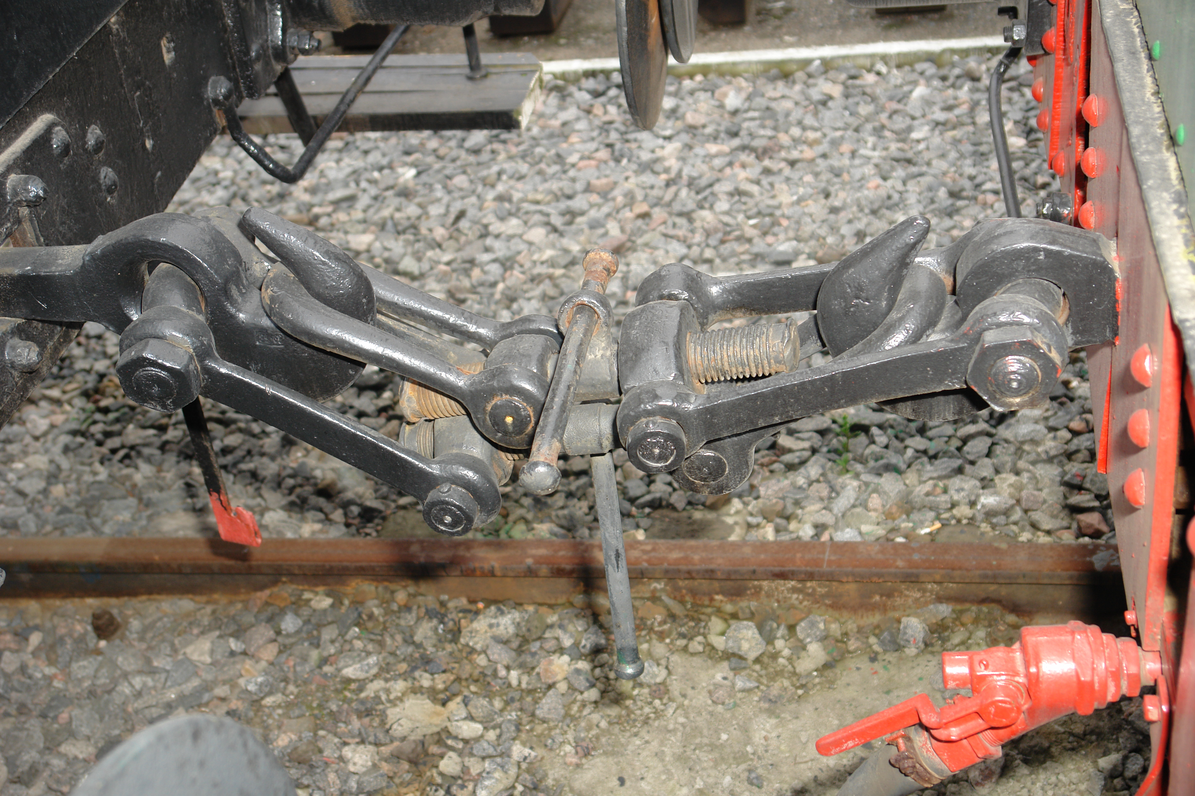 Passenger steam locomotive S.68 Weight in working order: excluding tender76t. including tender120t. Design speed115 kph Maximum power at wheel rim1300 hp The sole survivor of this class. Withdrawn by the MPS in 1960 and used as a stationary boiler at a Moscow factory which made concrete products. , An unprecedentedly complex restoration effort was undertaken at the October Railways Khovrino locomotive depot (Moscow) in 1982-3. ^ It was initially restored as S-245